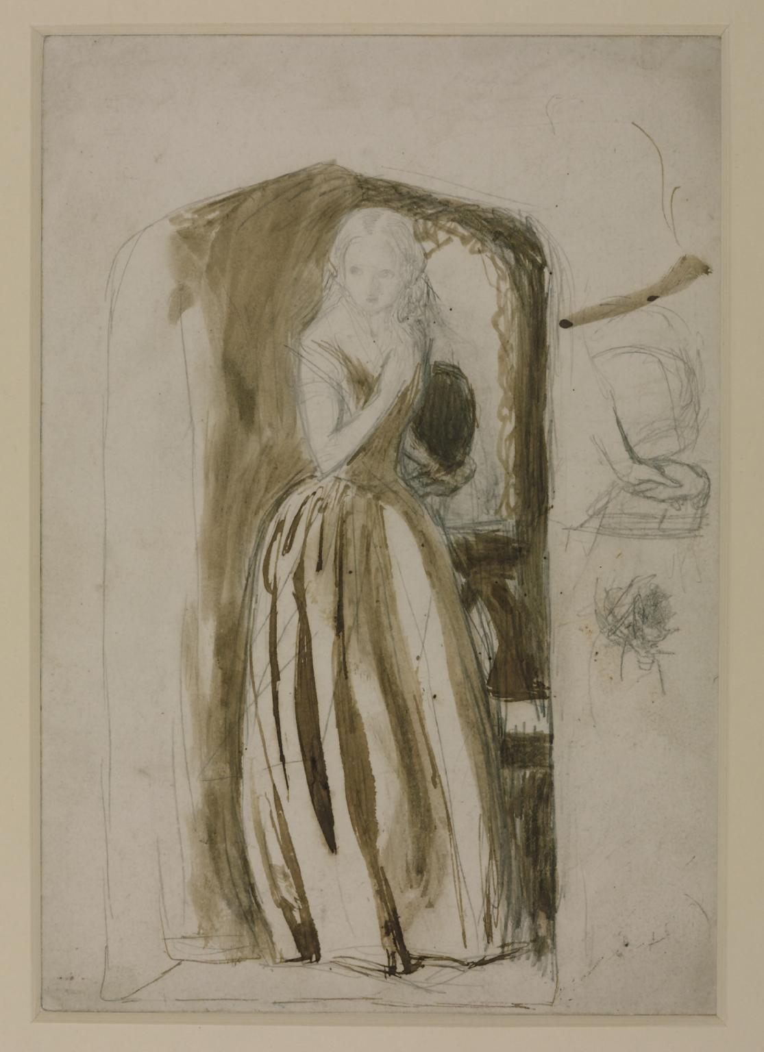 Studies for April Love